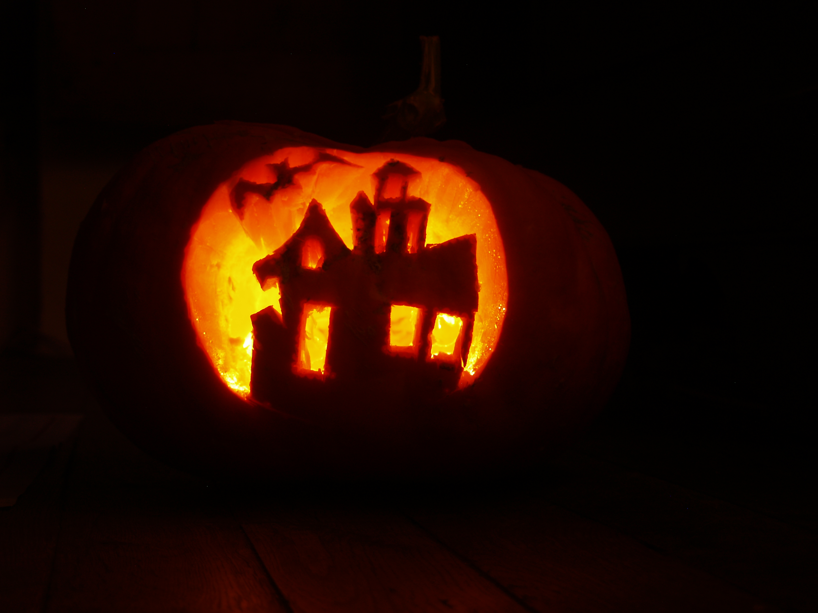 Pumpkin carving - photo taken in darkness to show the effect of illumination from within